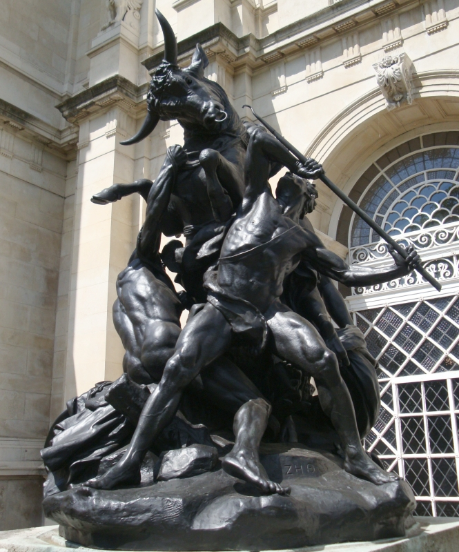 Sculpture 'Dirce'-Tate Britain-Millbank-London